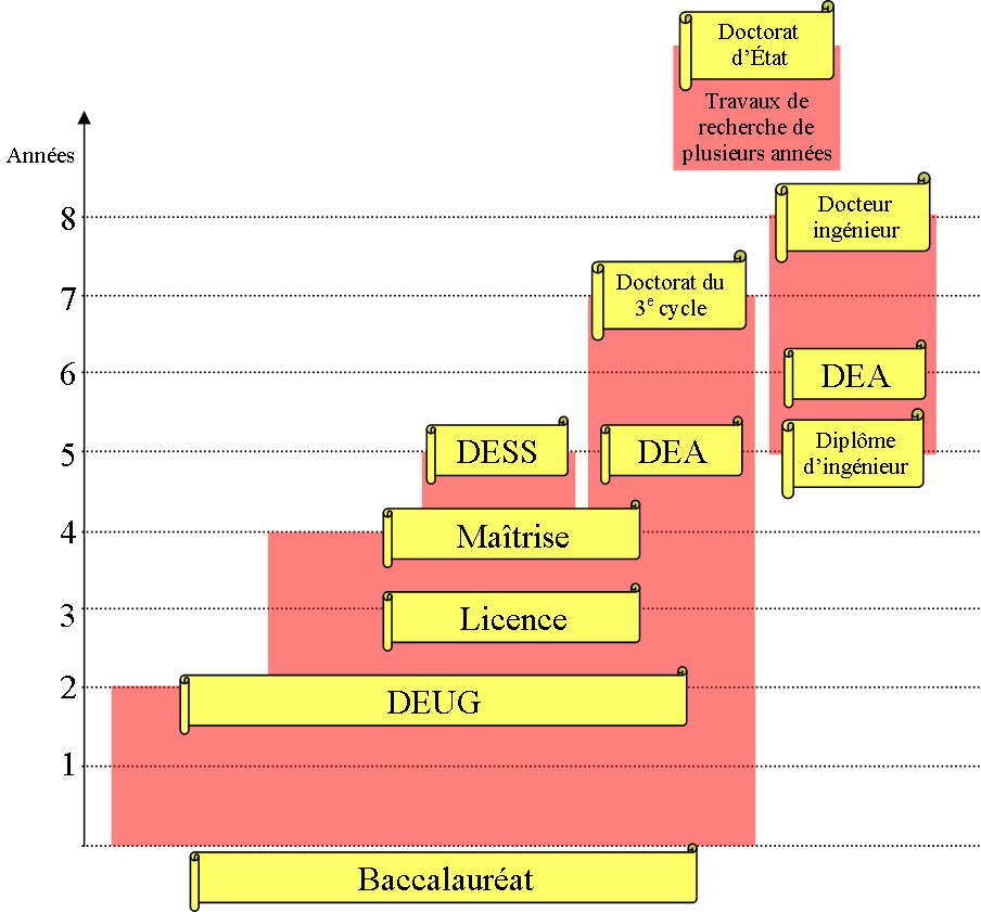 French educational system in universities in september 1977.